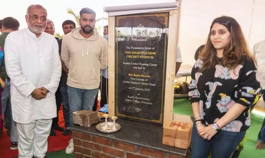 Rohit Sharma laid foundation stone for an international cricket stadium and training centre at Kanha Shantivanam in the presence of Kamlesh D Patel also known as Daaji